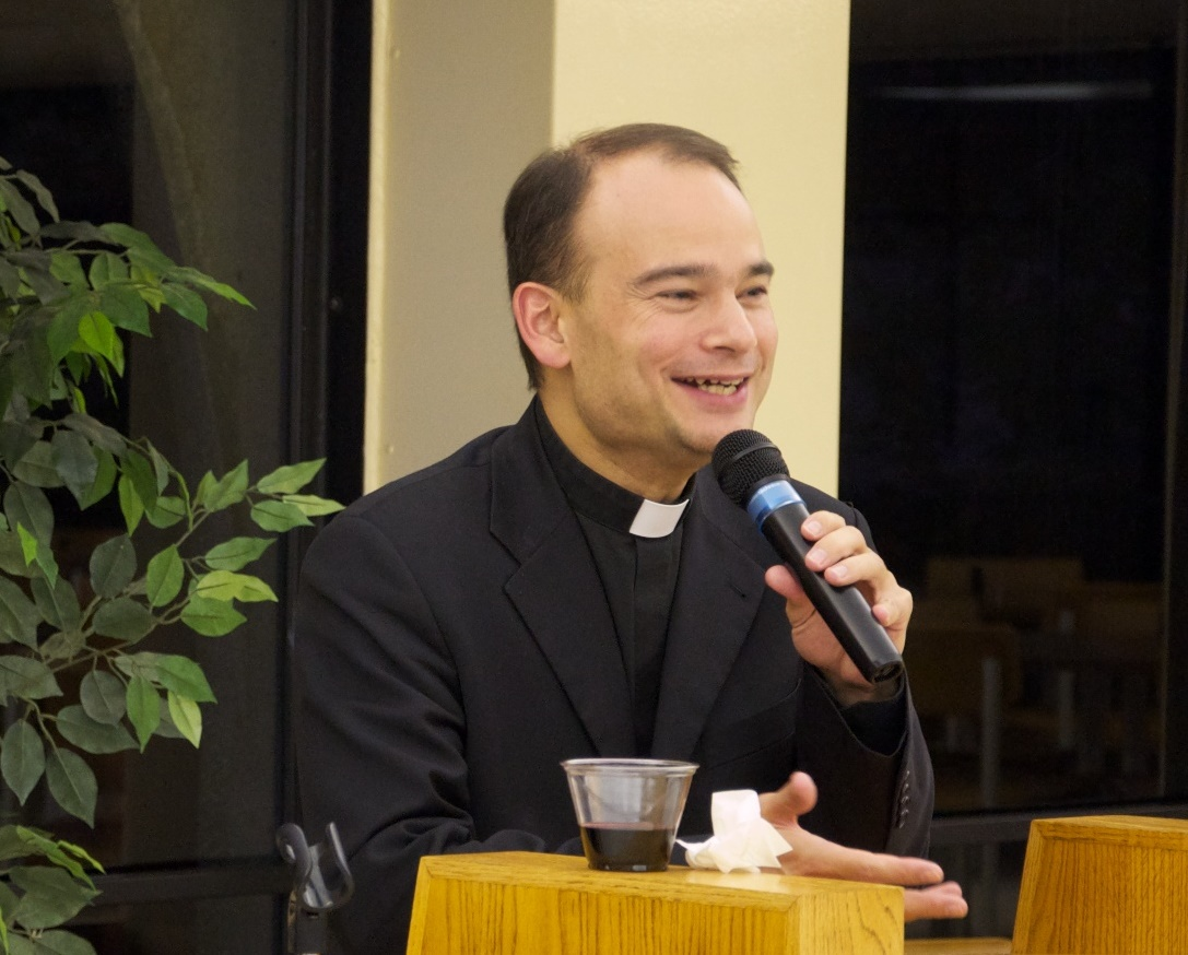 Father Roderick (Vonhögen) at CNMC 2011